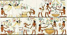 Scenes painted on white plaster. The mastaba of the official and priest Fetekti. Fifth Dynasty. Abusir necropolis, Egypt. Market seen from the old dynastic period.